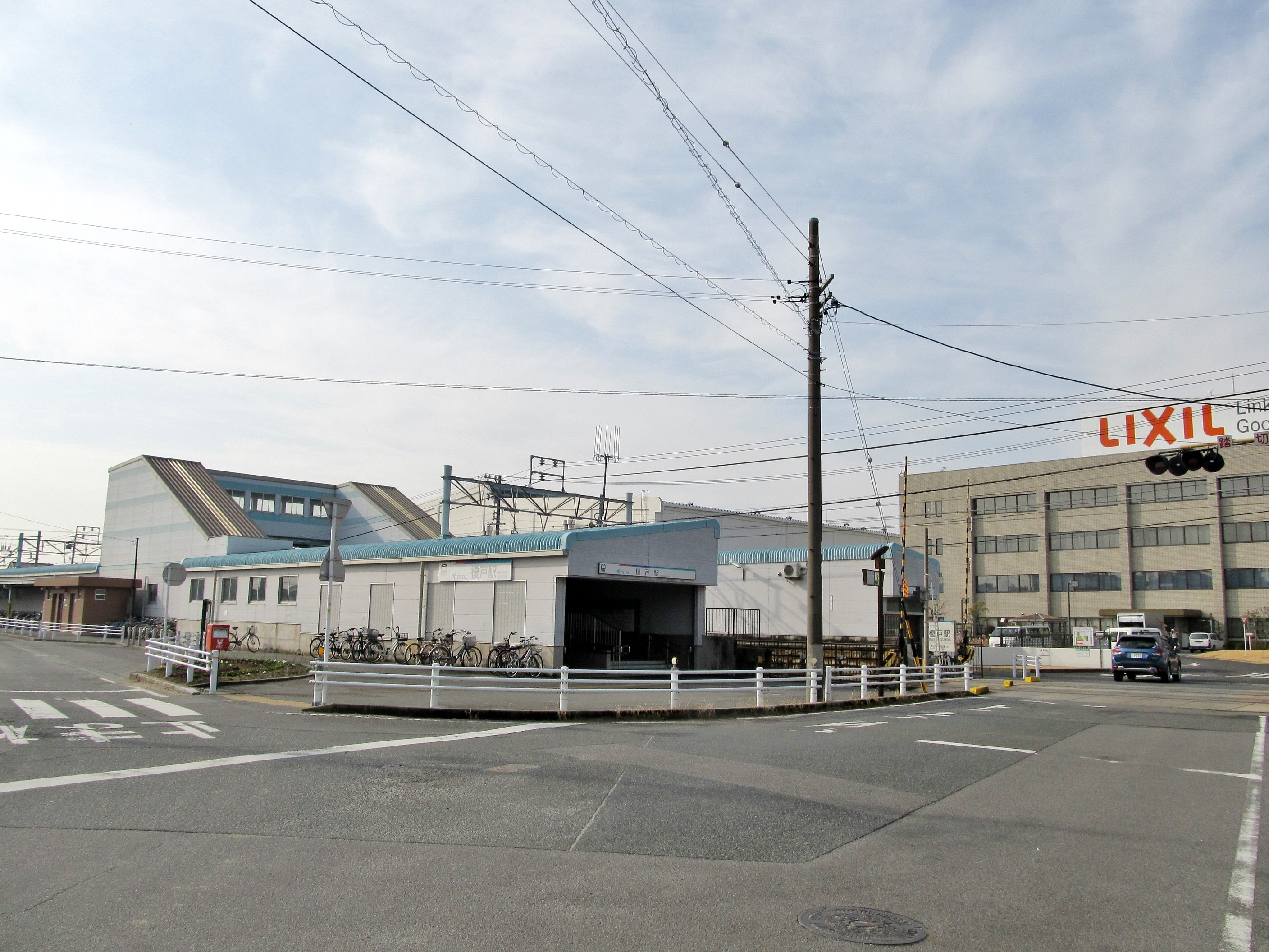 Nagoya Railroad Tokoname Line Enokido Station